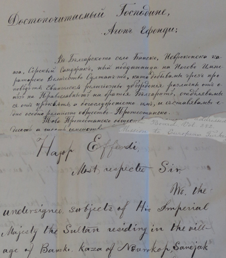 Bansco Protestant Church petition to the Sublime Porte for building of a church